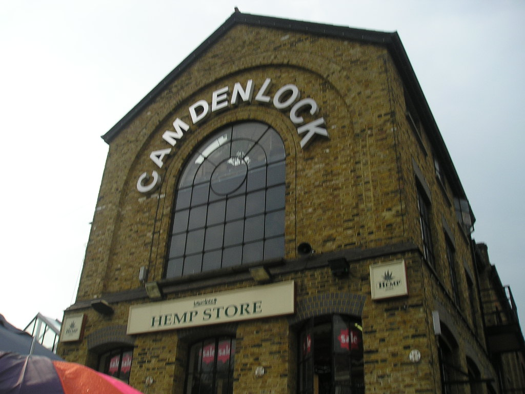 Camden Town